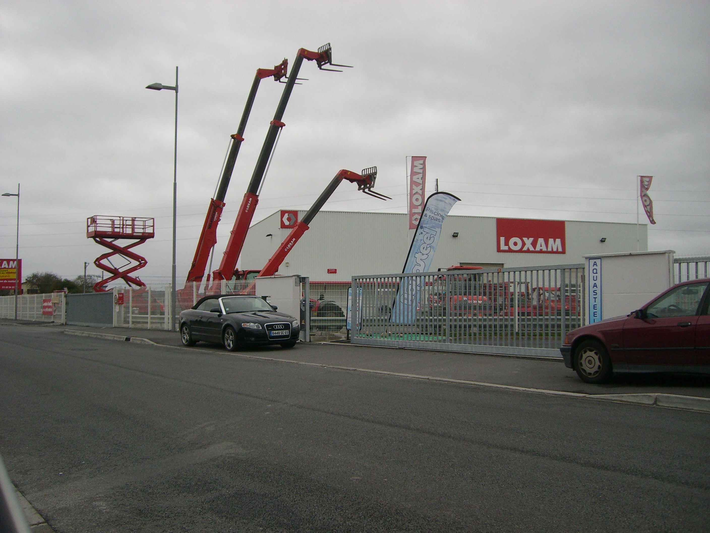 Rental agency Loxam France in Tarbes-Ibos (065)